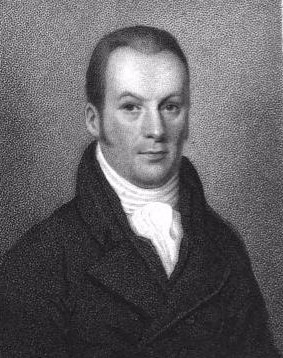 Portrait of William Roby (1766–1830), English Congregational minister. From Evangelical Magazine vol. XXVI, February.